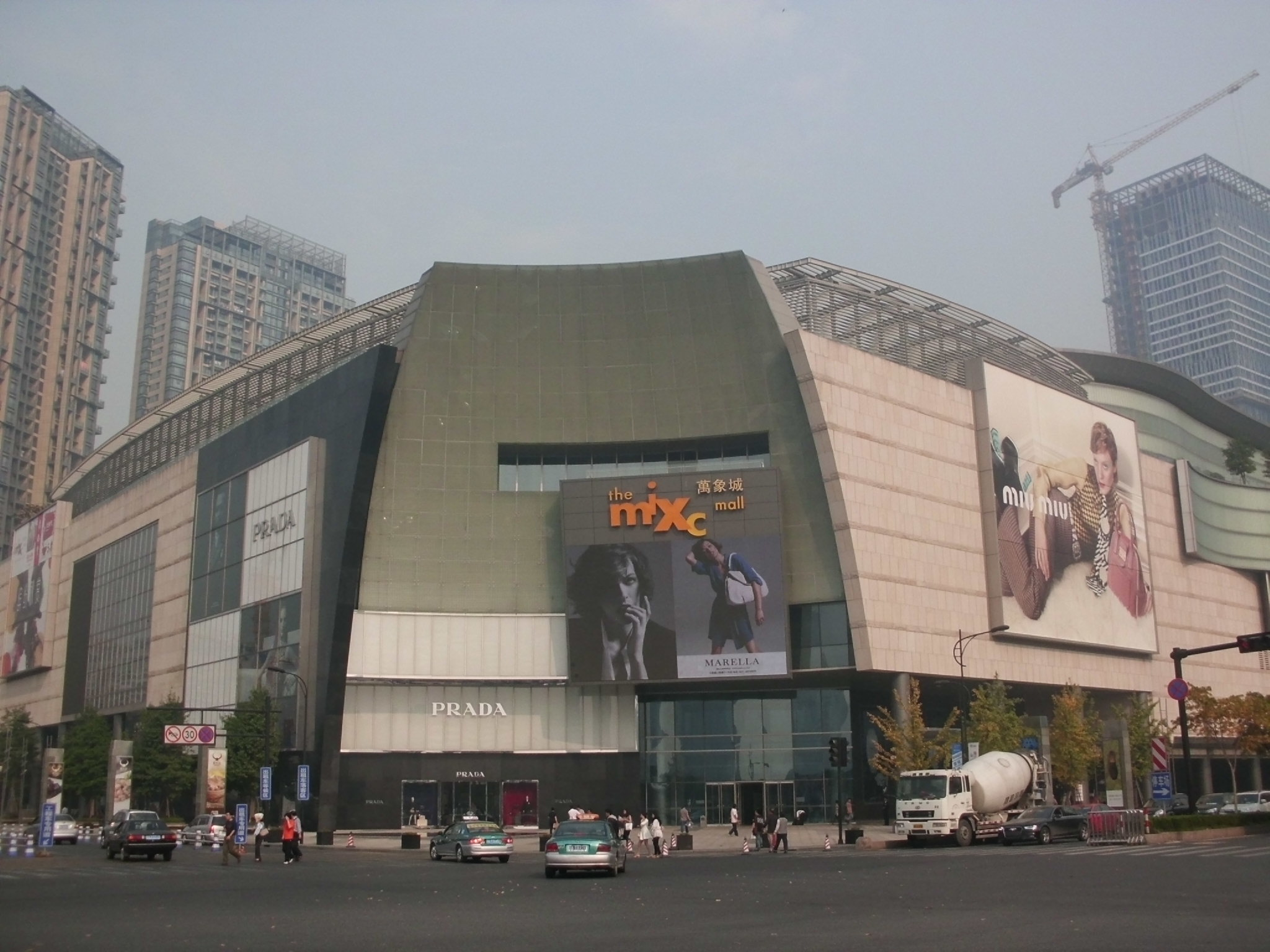 hzmixc